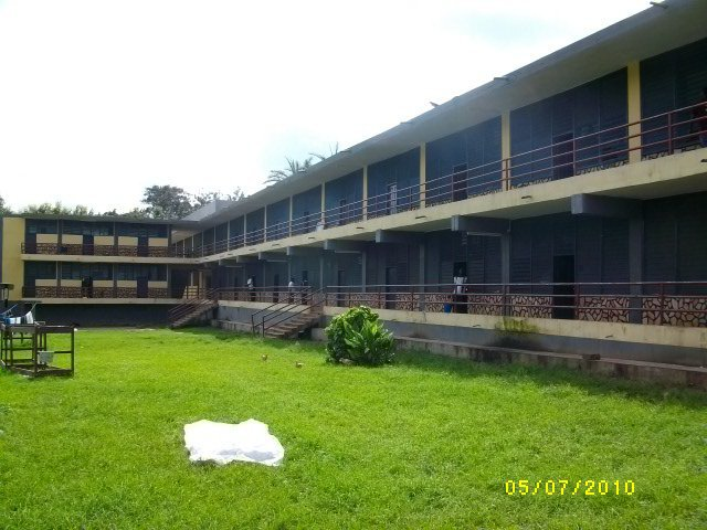 Block